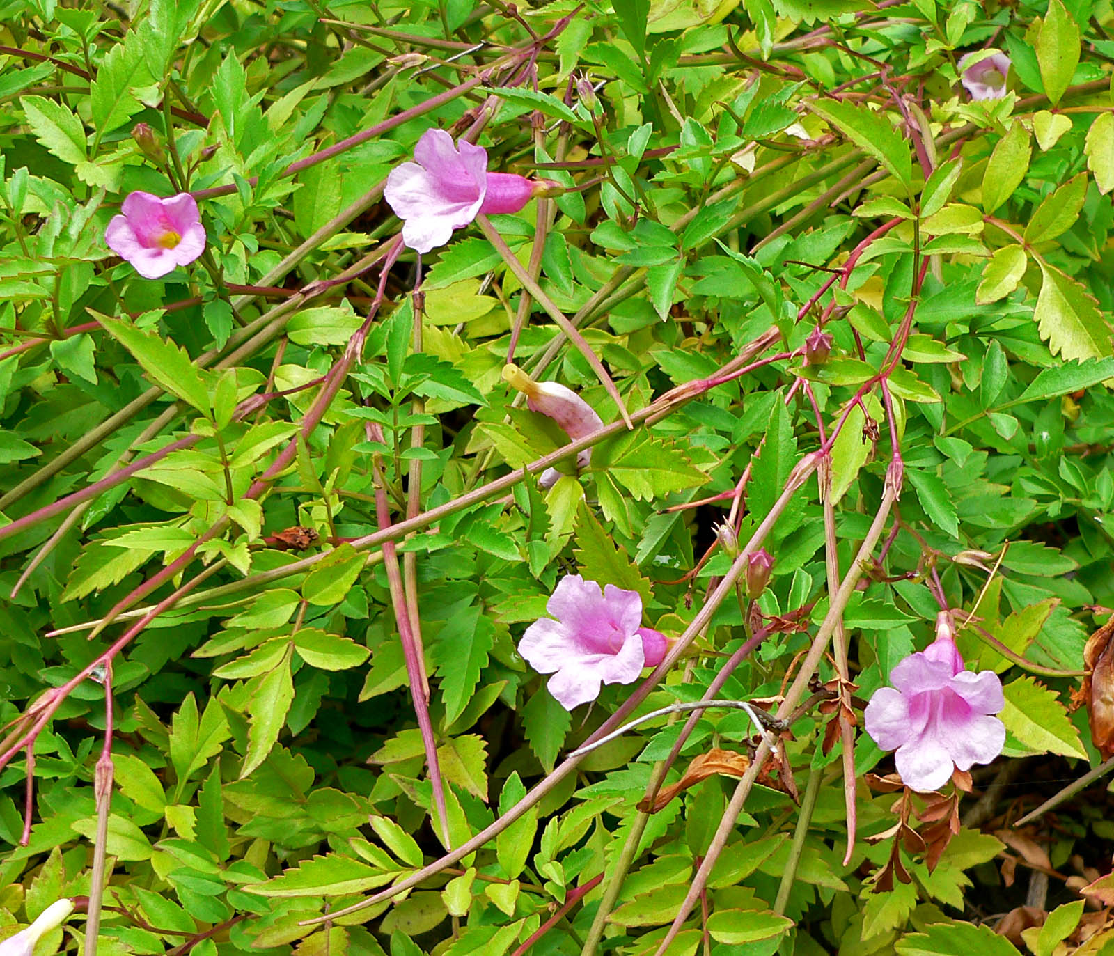 Photo of Incarvillea arguta at the University of California Botanical Garden